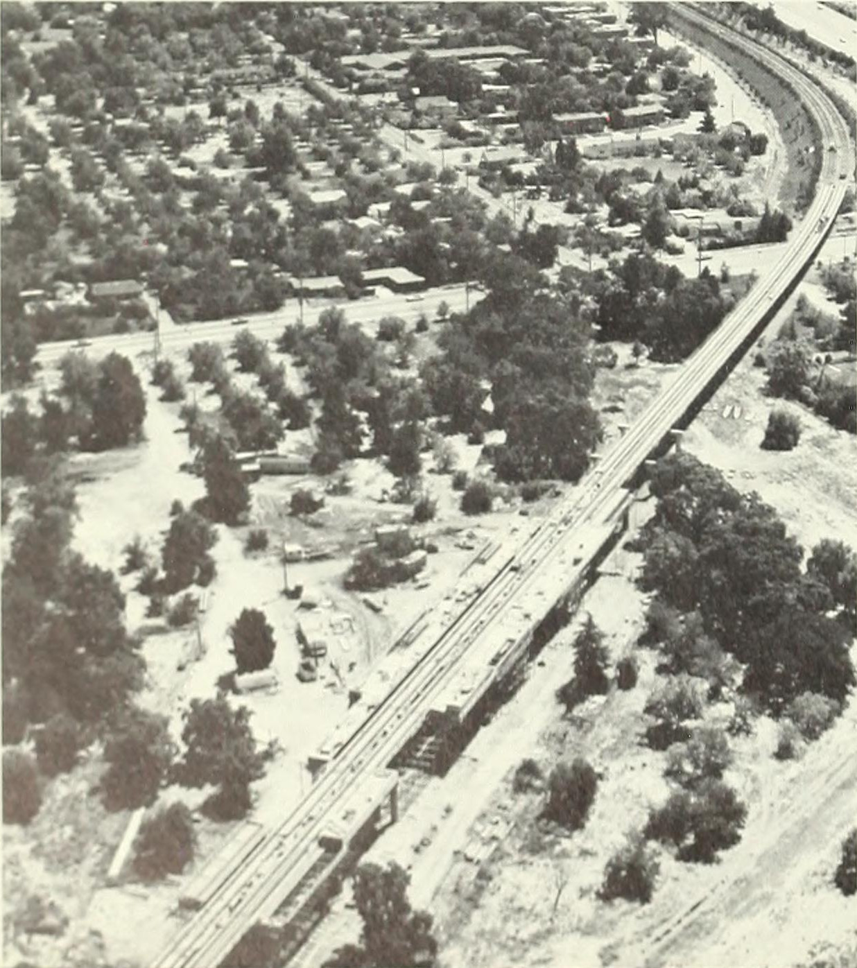 Pleasant Hill station under construction (35% complete) in 1970